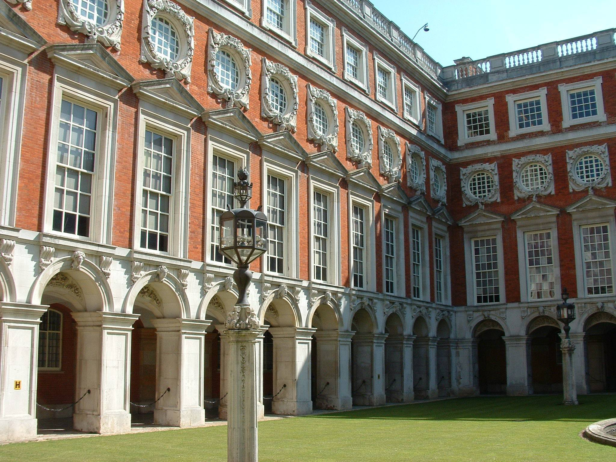 Hampton Court Palace